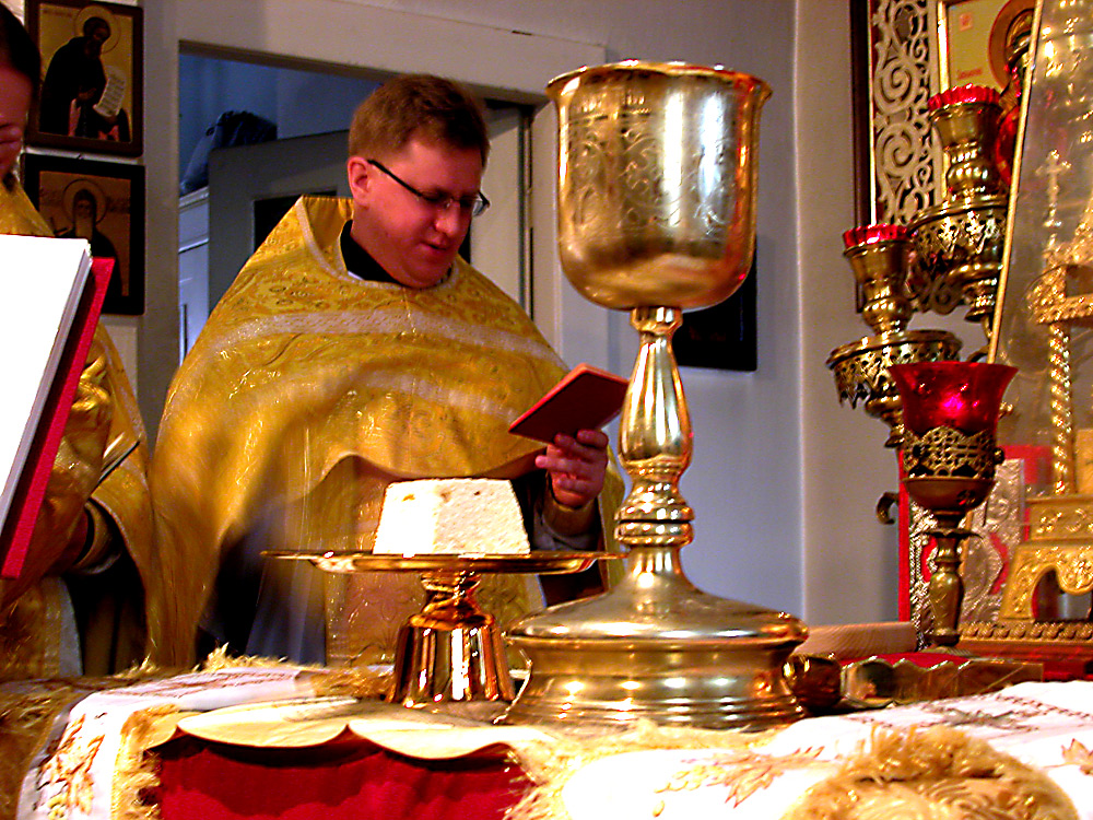 Liturgy of St James. Russian Orthodox Church in Duesseldorf.